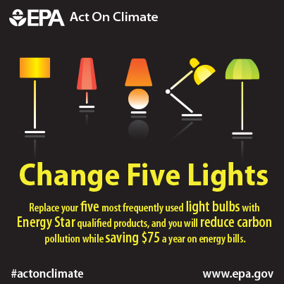 Give Energy Star the green light! Switch to Energy Star light bulbs to save $75 yearly and use 75% less energy. #ActOnClimate